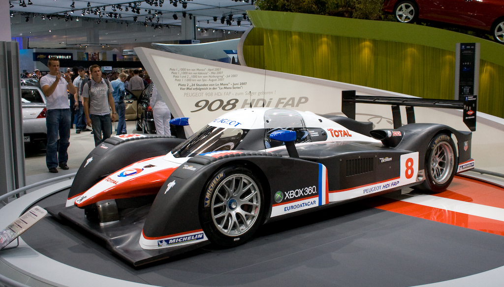 A Peugeot 908 on display at the Frankfurt Motor Show